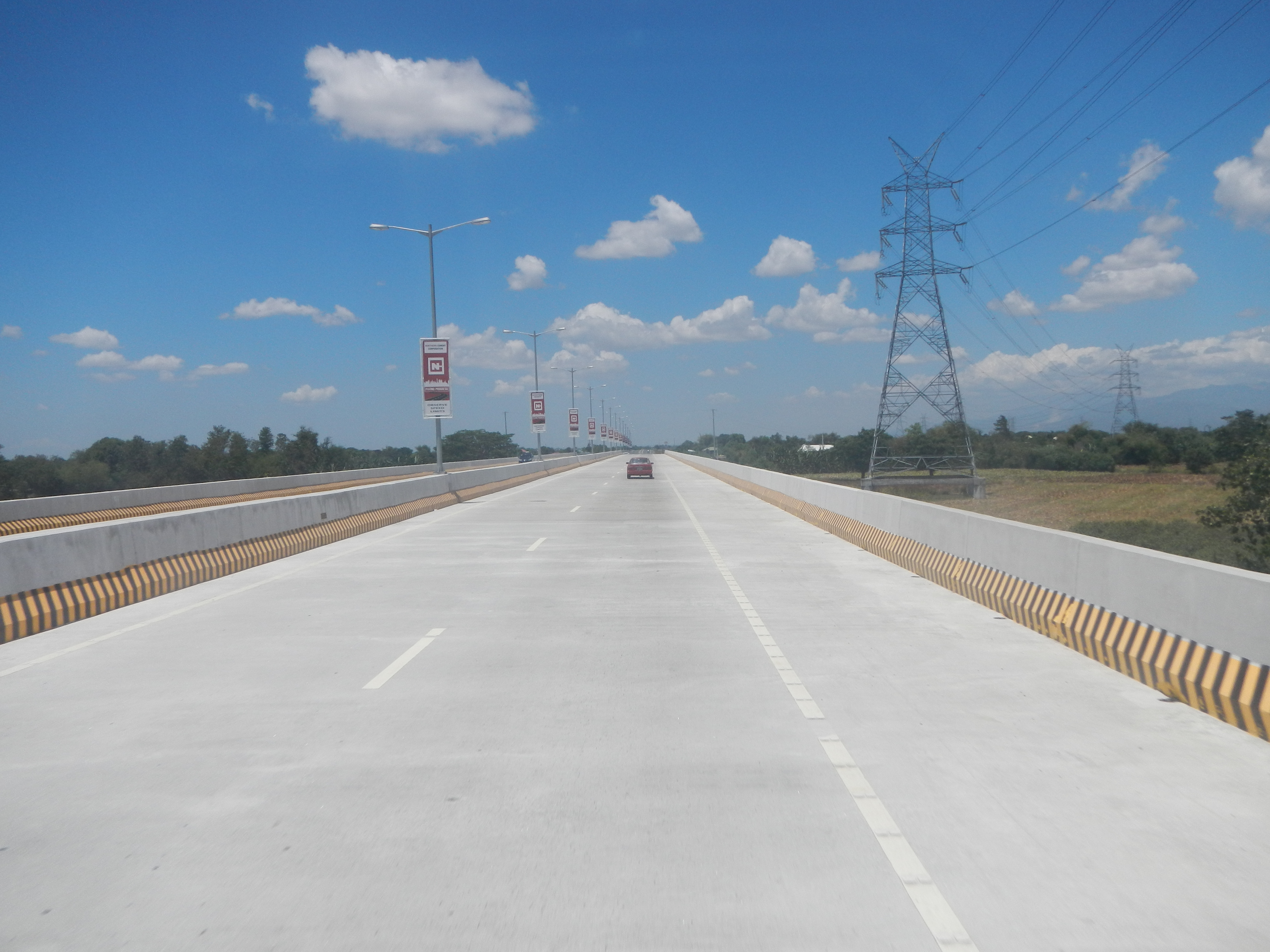 Tarlac–Pangasinan–La Union Expressway (Rosales-Urdaneta, Pangasinan section) terminus or exit, Rosales, Pangasinan, Urdaneta, Pangasinan.